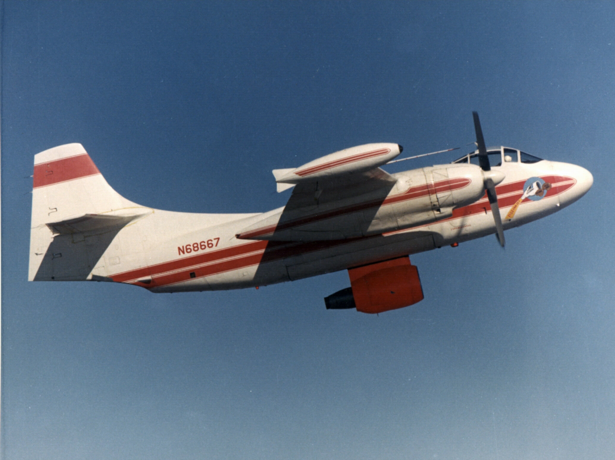 A North American AJ-2 Savage (BuNo 130418, civil registration N68667) in flight. It was used as a testbed for the AVCO Lycoming YF102-LD-100 turbofan engine used on the Northrop YA-9. The jet engine was mounted on specially-built truss assembly which could be retracted hydraulically into the bomb bay. This aircraft was accepted by the U.S. Navy on 6 February 1953, and entered squadron service with Composite Squadron VC-7 at Naval Air Station Patuxent River, Maryland (USA). Between 1955 and 1960, the aircraft was in service with VC-6, VAH-6, and VAH-16, flying from NAS Atsugi, Japan, NAS Barbers Point, Hawaii, and NAS North Island, California, and completing deployments in the carriers USS Yorktown (CVA-10) and USS Bennington (CVA-20). Stricken in February 1960, the aircraft accumulated a total of 1,630 hours while in U.S. Navy service. Subsequently purchased for service as a fire fighter, the it performed this duty until 1971, at which time AVCO Lycoming bought the aircraft from a fire fighting operator in Madras, Oregon, for use as flight test bed for the company's engine designs. The aircraft ceased flight operations in 1975 and was placed in storage. For much of the ensuing decade Naval Aviation Museum Director Captain Grover Walker negotiated with the company for acquisition of the aircraft for the museum collection. On 15 May 1985, it was flight delivered to NAS Pensacola, Florida (USA).[1]